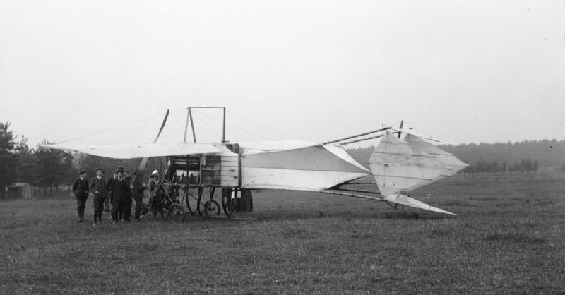 Aviation in Britain Before the First World War A good view of Cody aircraft mark IV, Monoplane on the ground with a small group of civilians. Cody built this aircraft specifically for the 1912 military trials. This single engine tractor design, radically different from his previous ones was significantly quicker and more manoeuvrable than the aircraft he had built before, though this was partly because of the more powerful Austro-Daimler engine which had been transferred from the mark IIE aircraft. Note the unusual tail arrangement with twin elevators and rudders. The Cockpit was semi enclosed with two side by side seats. Also note the aircraft's large size compared to other contemporary monoplanes. Approximately four weeks before the trials (sources disagree on the exact date) Cody struck a cow whilst attempting to make a forced landing after an engine cut out. Cody was thrown clear, largely unhurt, but the cow was killed and the aircraft, apart from the engine and rudder, was written off leaving him with no aircraft four weeks before the trials.